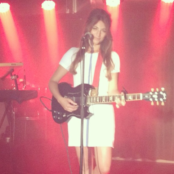 Luca Vasta performing at Privatclub (Berlin) in 2013